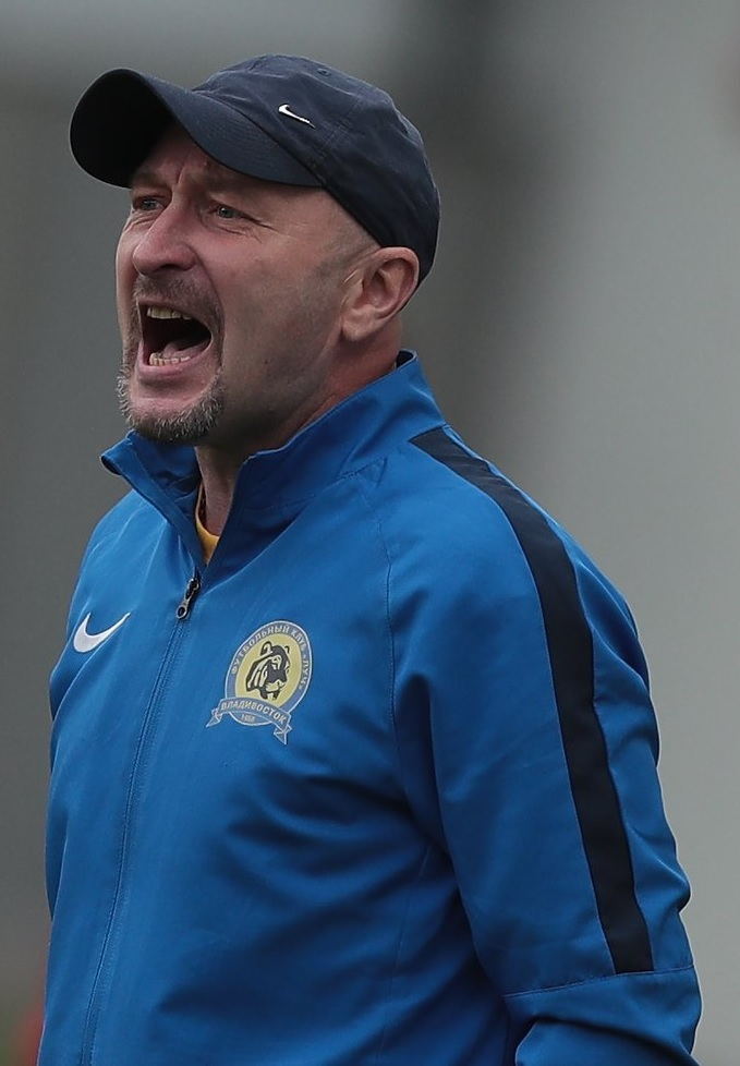 Rustem Khuzin coaching FC Luch Vladivostok in a game against FC Khimki.